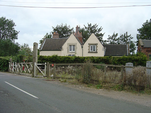 The old Station building at Northorpe The railway now only sees a sparse passenger service, and the double track has been reduced at some stage to a single track.